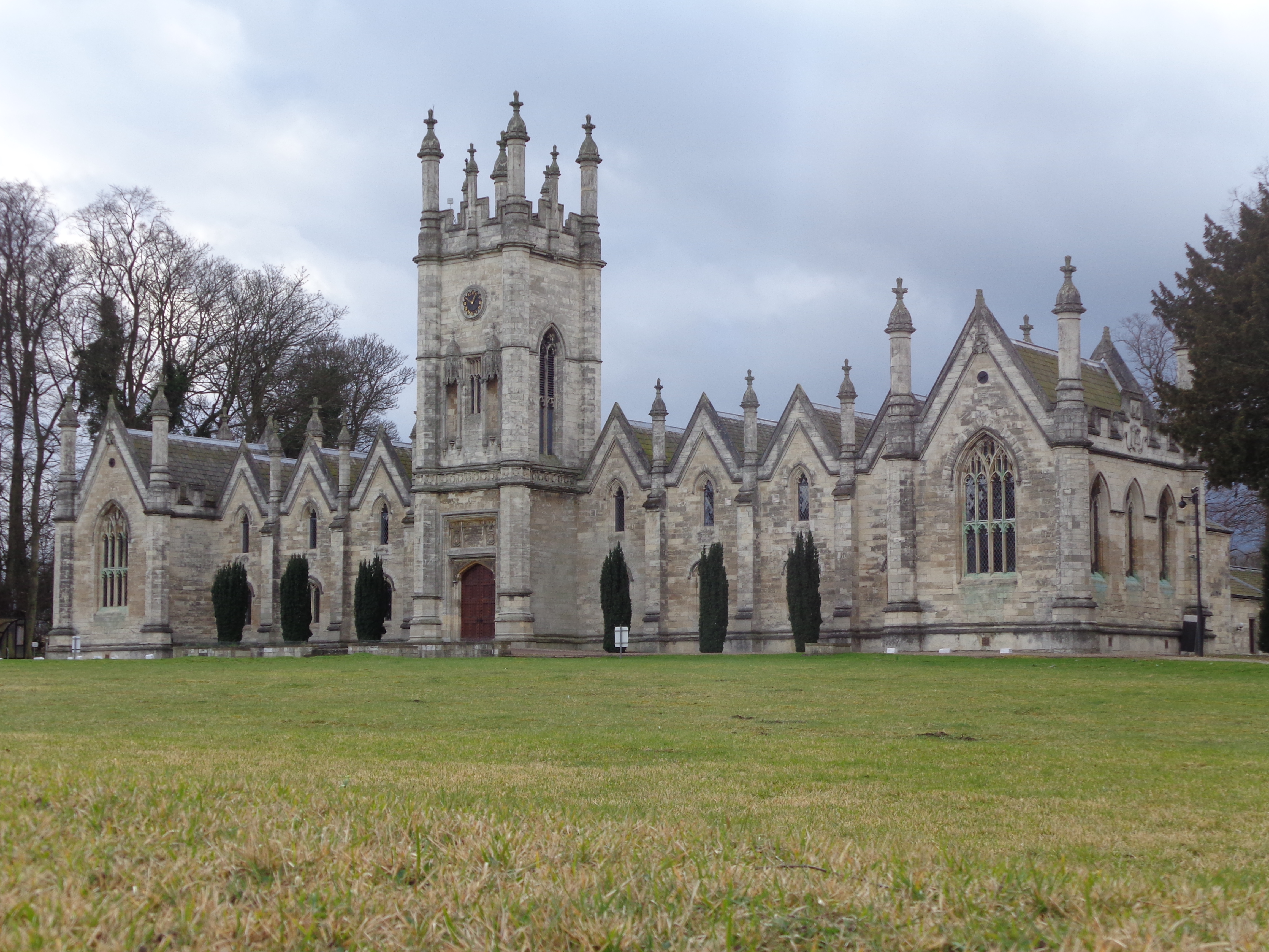 Almshouses, Bunkers Hill, Aberford, Leeds, West Yorkshire. Taken on the afternoon of Saturday the 22nd of March 2014.